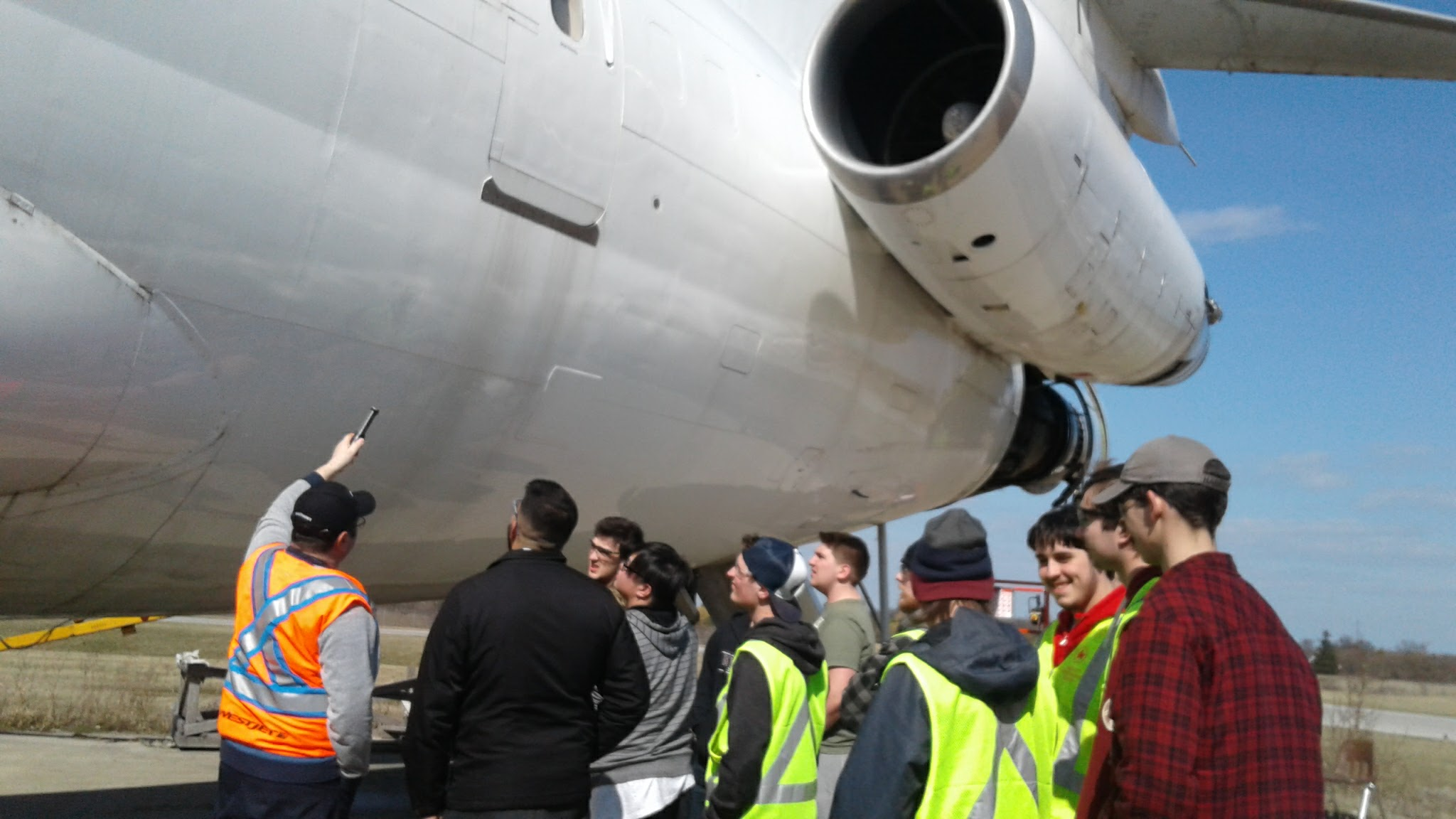 Students in a lecture with a instructor. Currently looking at the college's static B727-200.